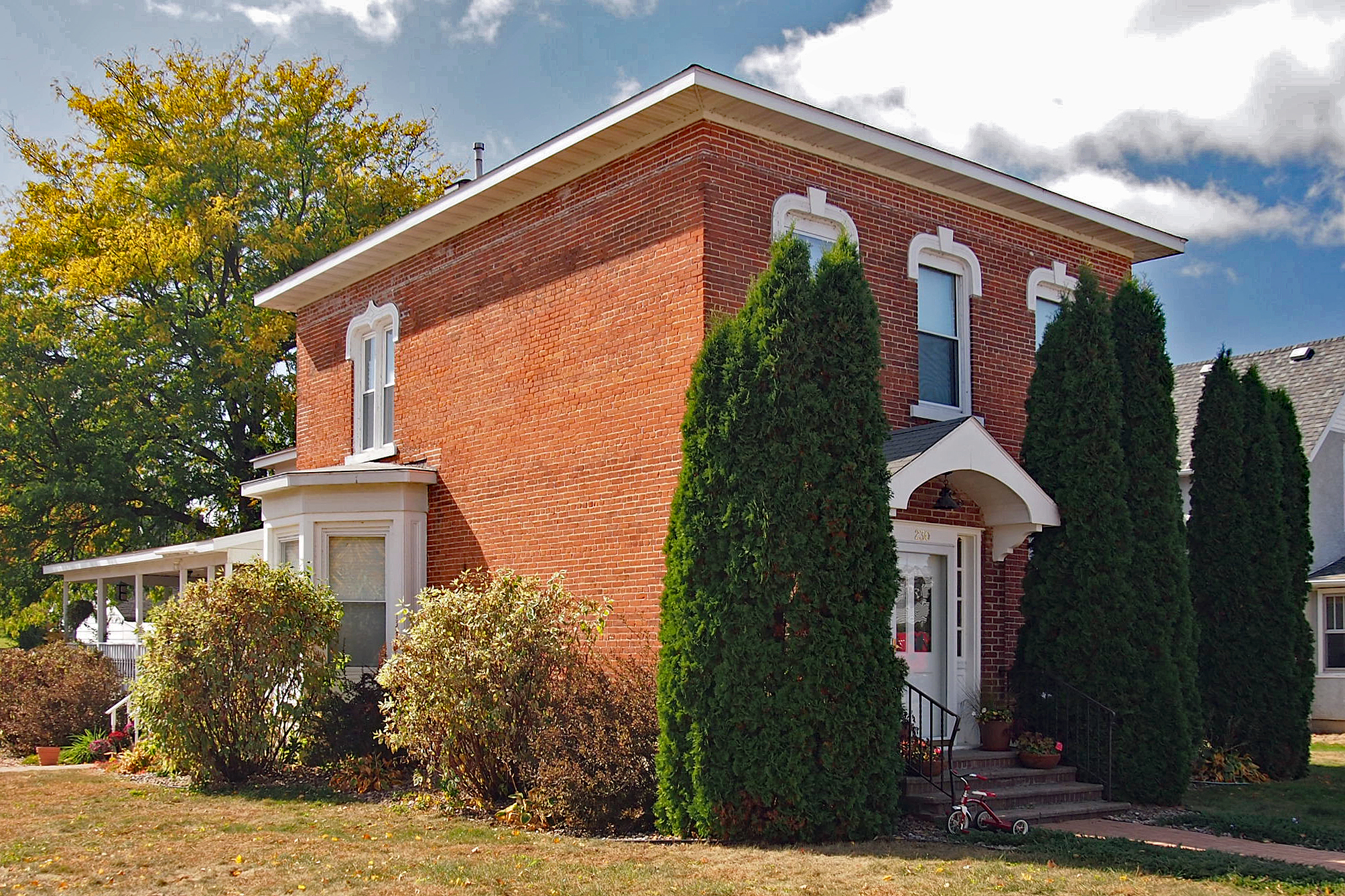 Henry S. and Magdalena Schwedes House, 230 E Main St, Wabasha, Minnesota, USA. Viewed from the northeast.